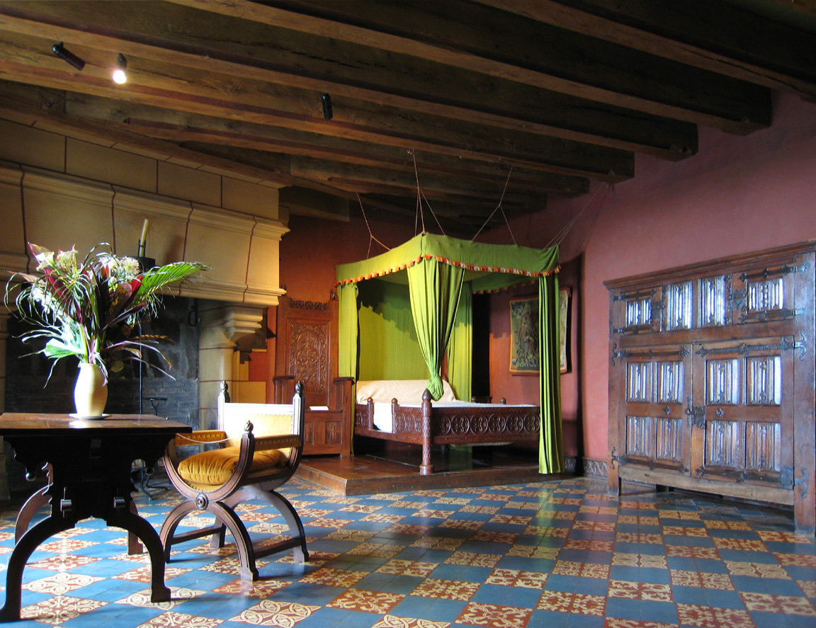 Bedroom at Castle of Langeais on the Loire in France